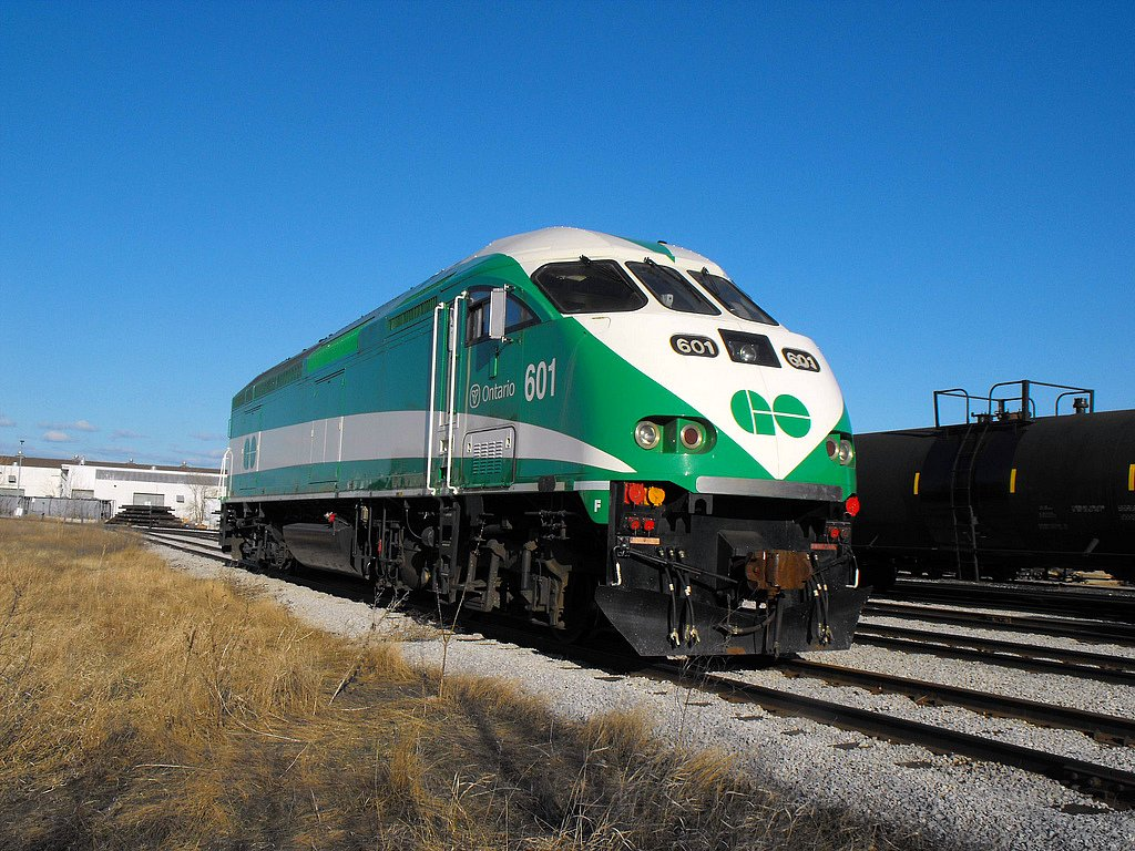 GO Bold, GO Brave, GO strong or GO home. when there clean they look o so good yet so bland. Anyway this is for you Franklin keep up the good work on the Metra shots. I'll get the GO.